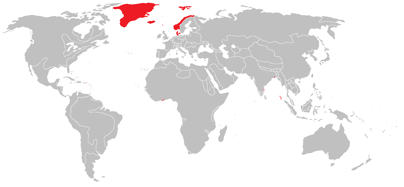 Denmark-Norway and possessions in 1800. Other international borders represent the situation in the 1710s.